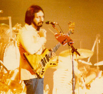 Some snaps taken years ago. John Entwistle, The Who, Toronto Maple Leaf Gardens, Oct 1976